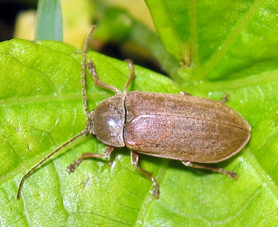 Dascillus cervinus, Traunsee (east side), Upper Austria, Austria